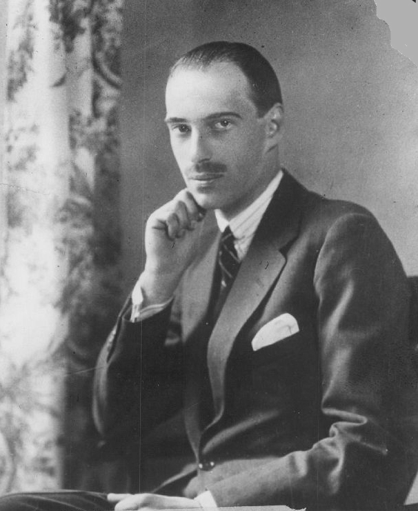 Prince Andrei Mikhailovich Romanoff, 1920